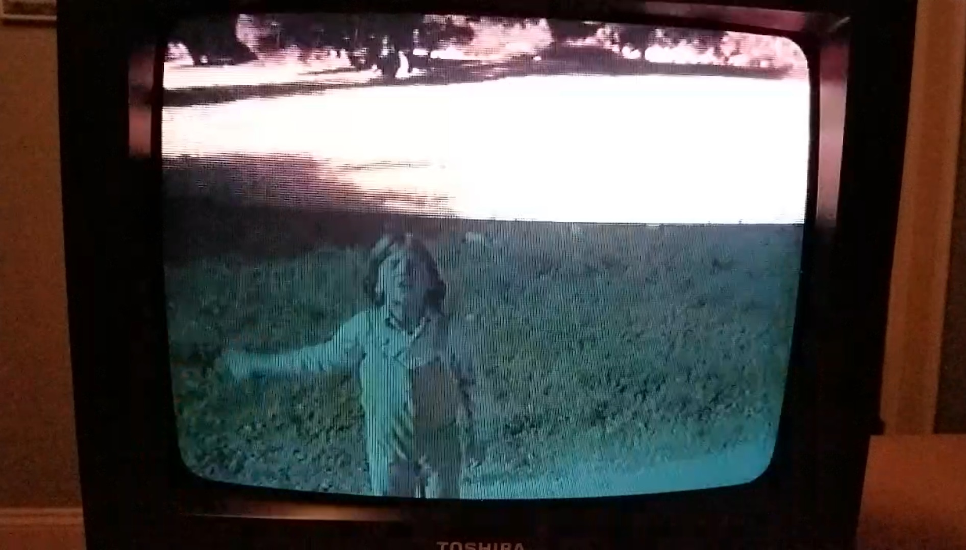 A CRT television filmed in slow motion. The line of light is being drawn from left to right in a raster pattern. The film on-screen is Disney's Pete's Dragon